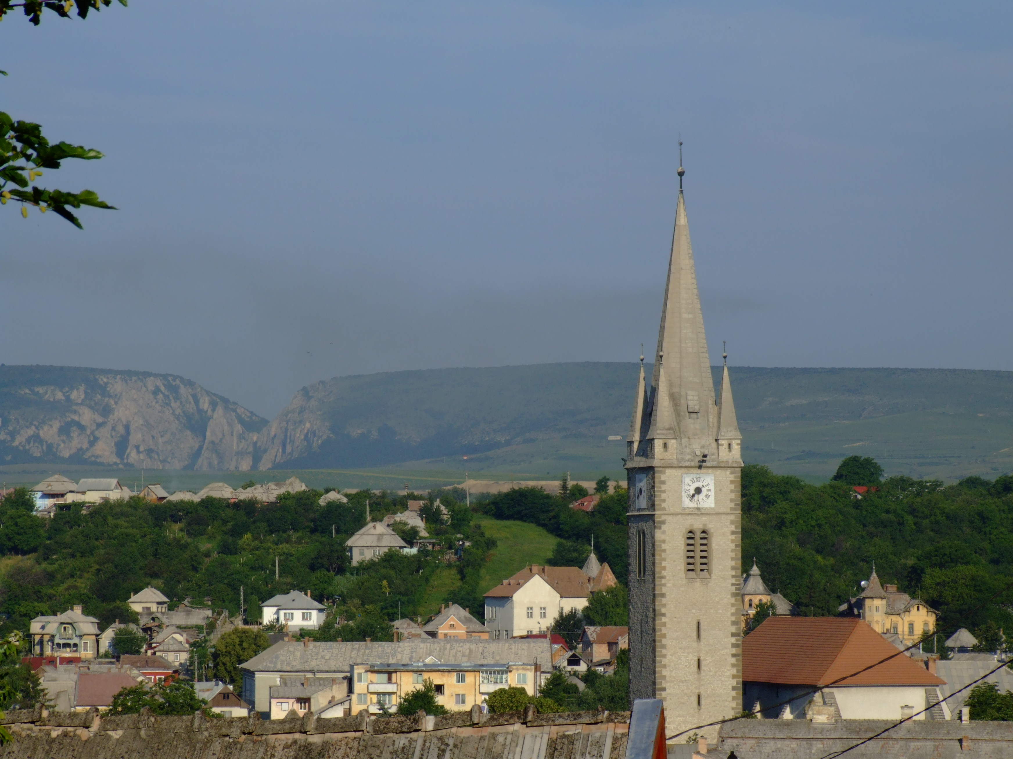 Turda, total view of Turda-Veche with Reformed Church